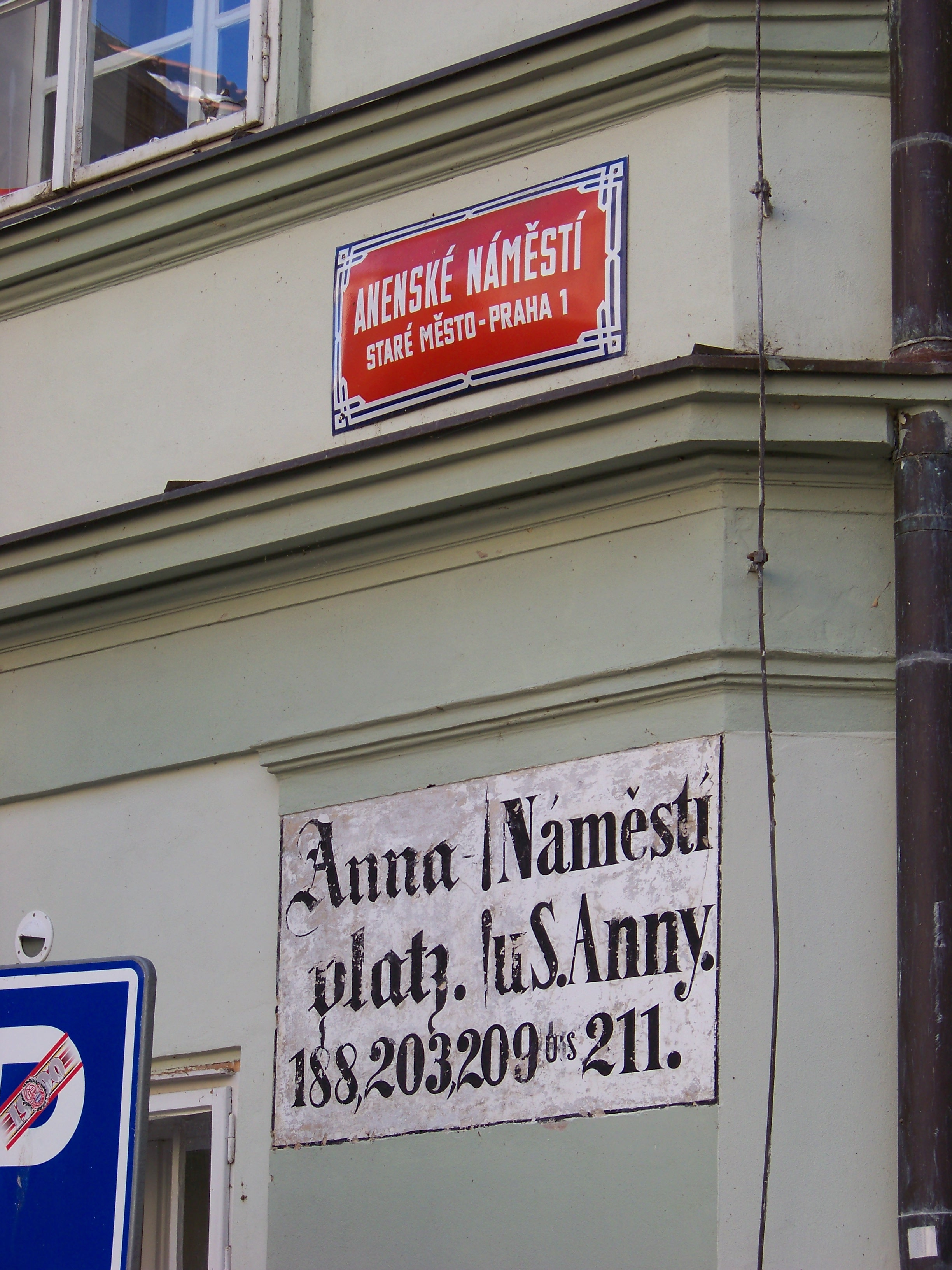 Prague-Old Town. Anenské náměstí 209/5, the old and the new square name sign.